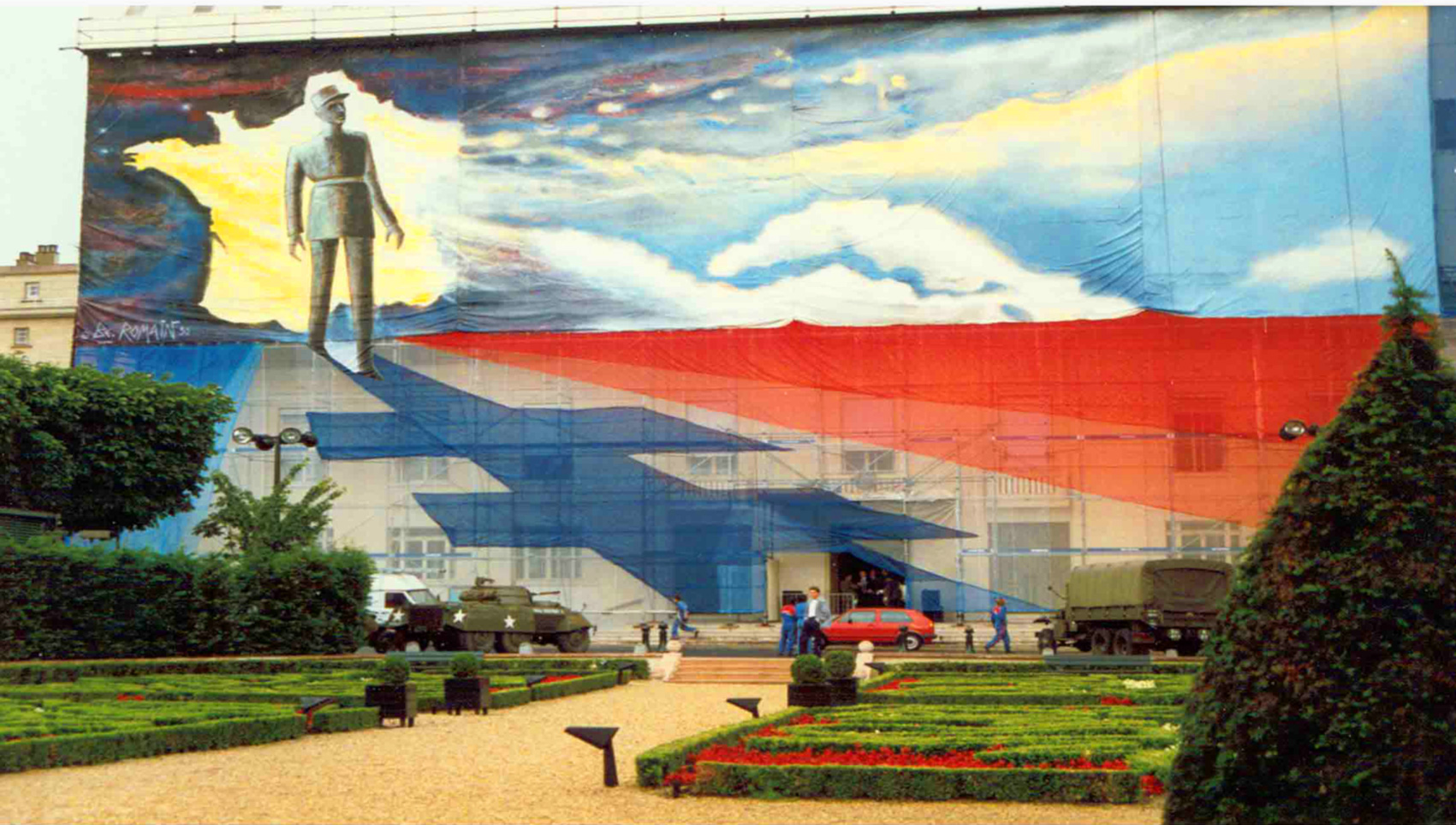 covering the town hall of Saint-Mandé to commemorate the De Gaulle year in Paris by Bernard Romain